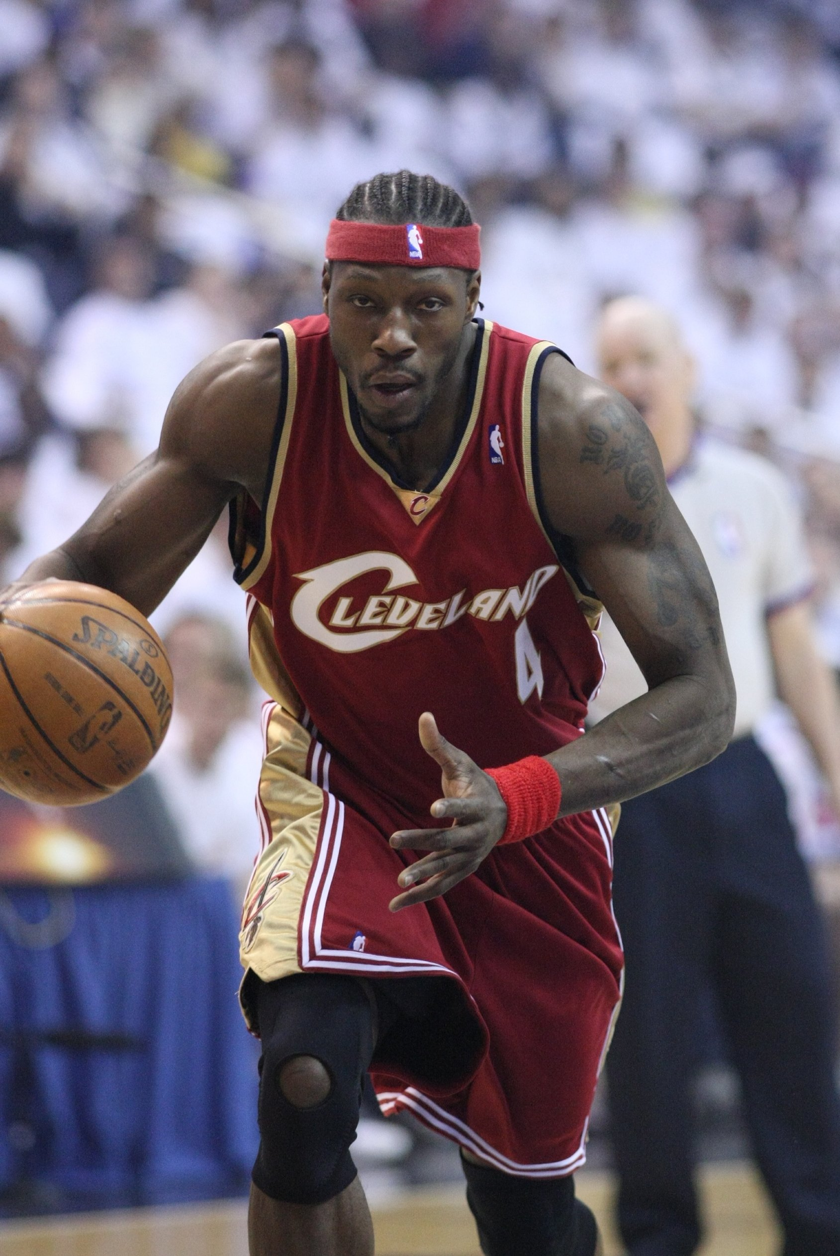 Ben Wallace playing with the Cleveland Cavaliers